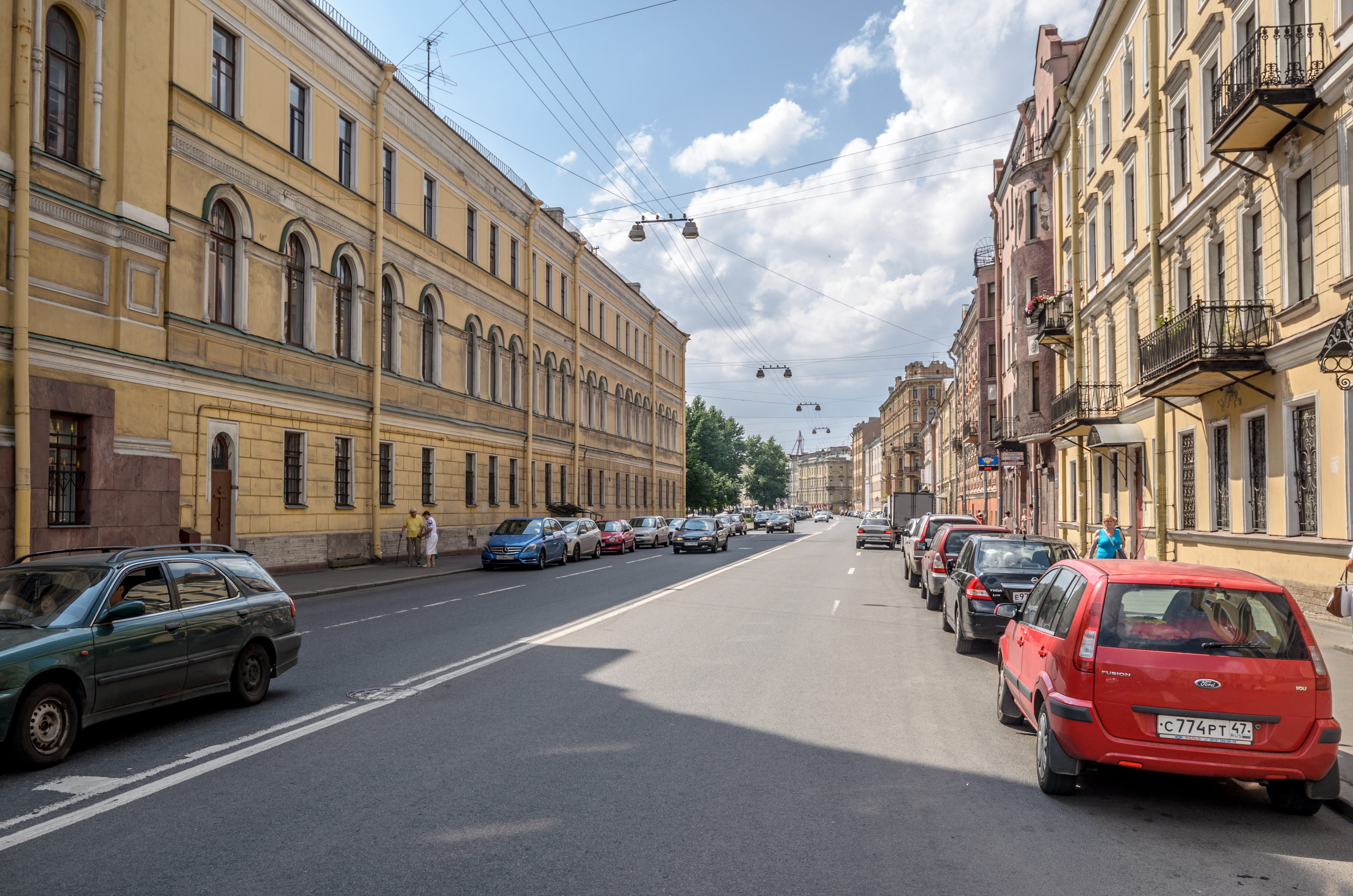 Rimskogo-Korsakova Avenue in Saint Petersburg